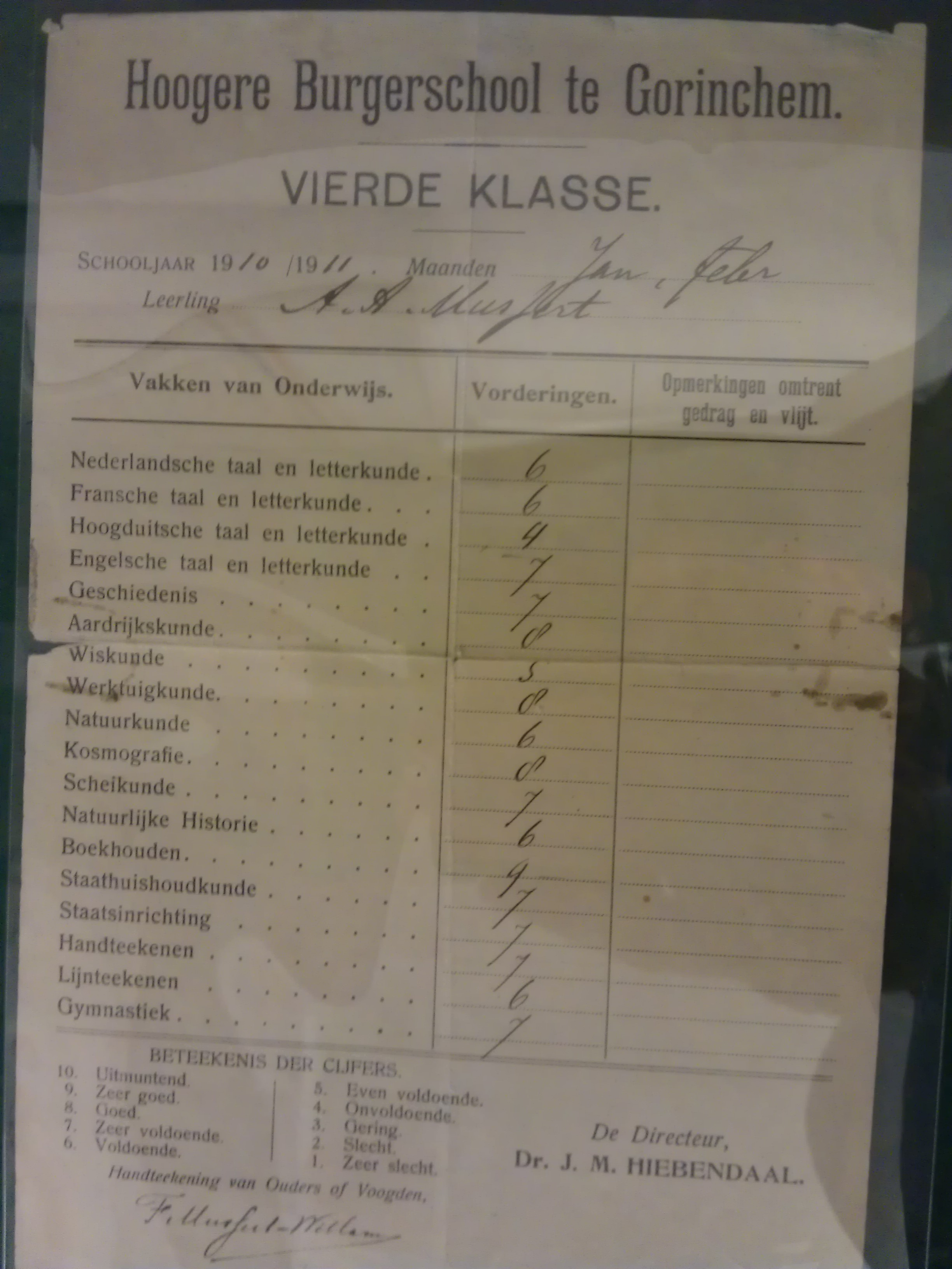 to be added